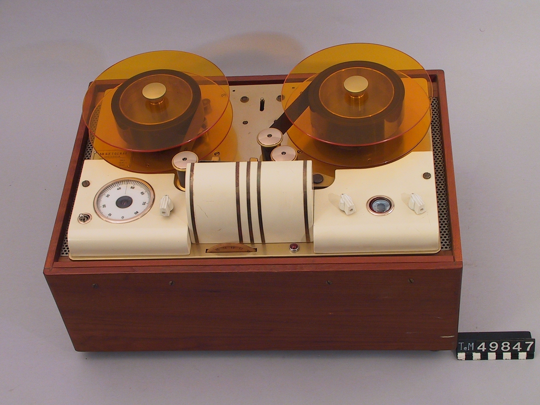 Tolnai LP16 Tape Recorder. Long Playing tape recorder with 16 tracks, constructed by the Hungarian-Swedish Diploma Engineer Gábor Kornél Tolnai (1902-1982), Stockholm, in the 1950s. Since 1986 the tape recorder is in "Tekniska museet" in Stockholm.